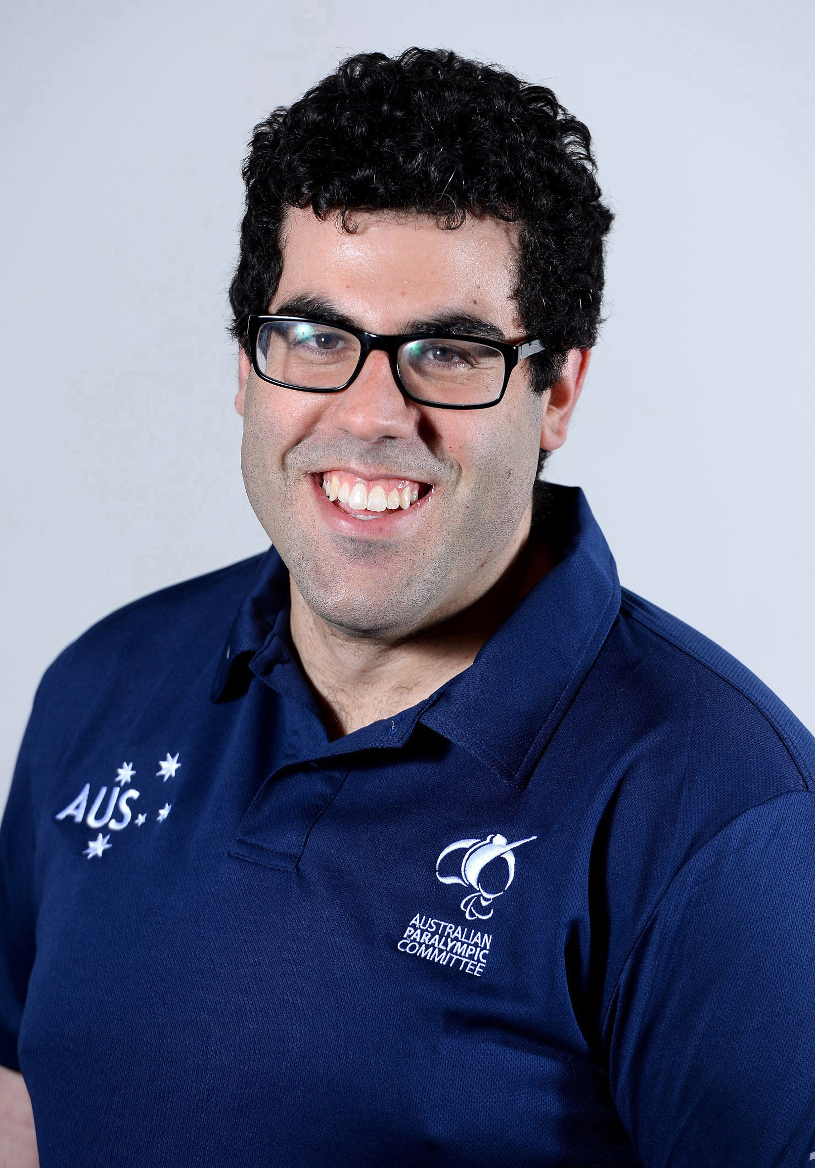 Portrait photograph of Barak Mizrachi taken at team processing session for shadow members of 2016 Australian Paralympic team